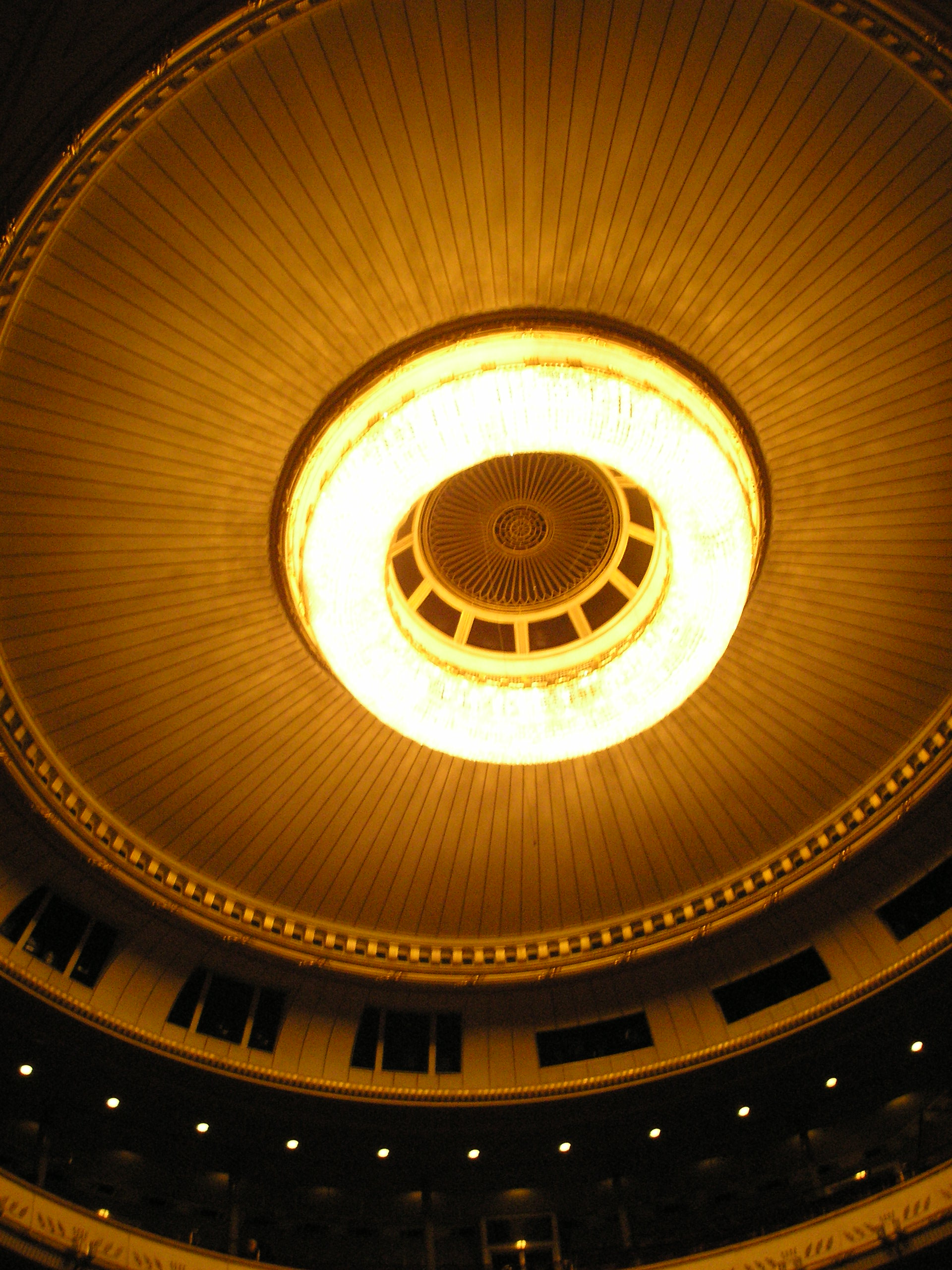 View on to the ceiling lights in the Vienna State Opera.